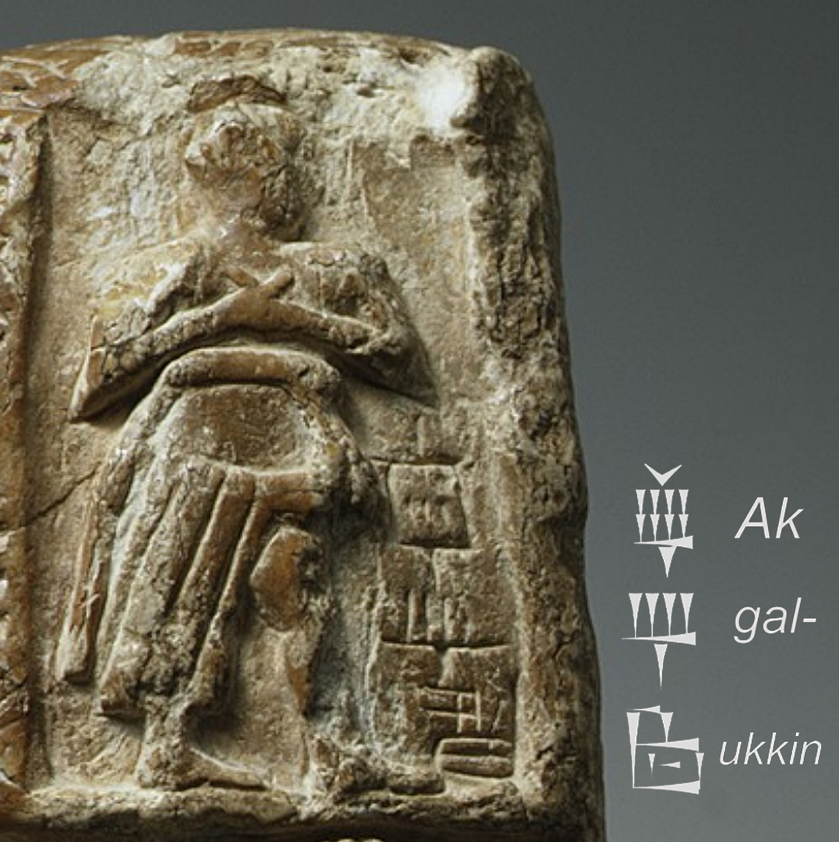 Ak gal-ukkin